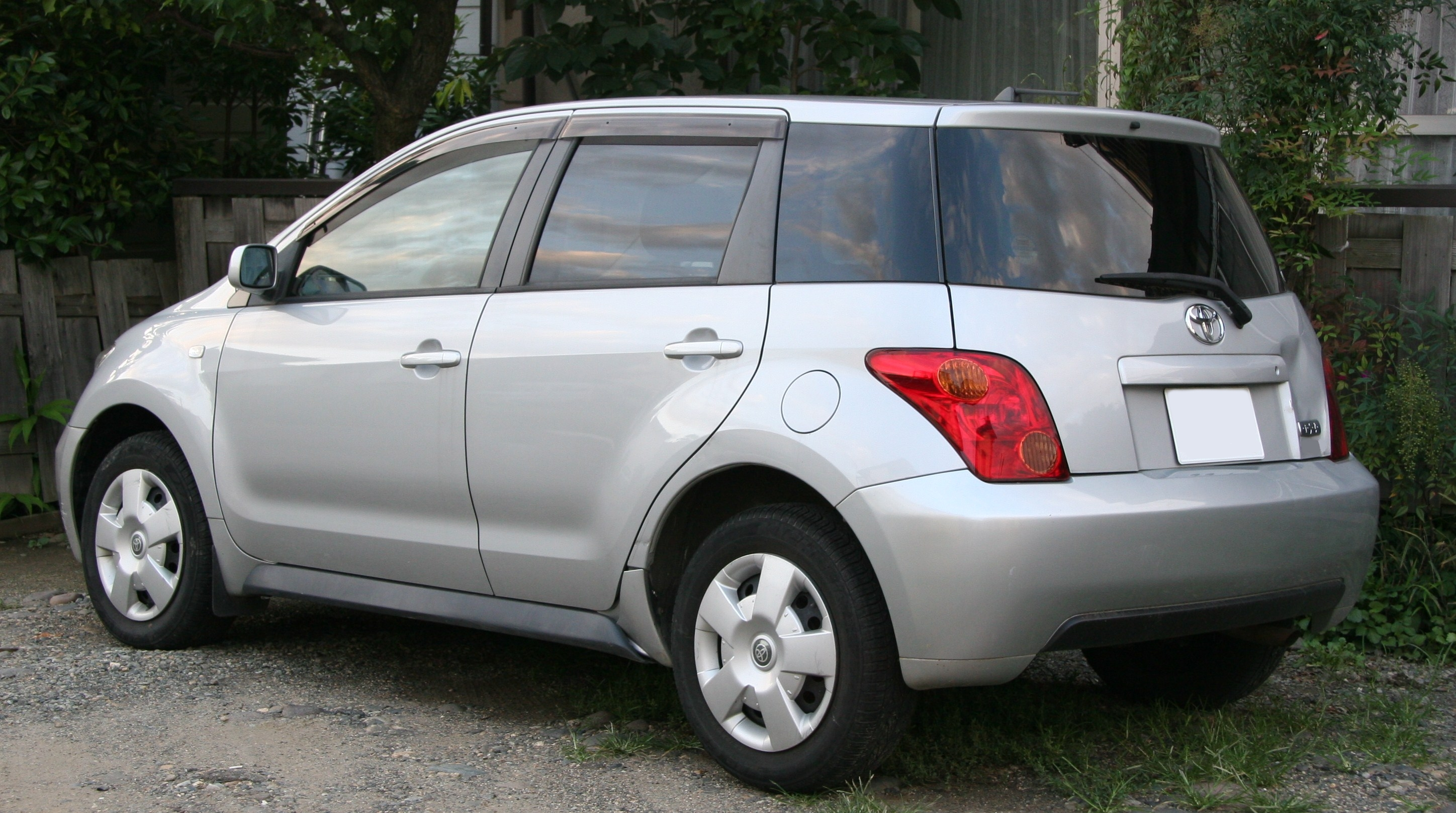 Toyota Ist